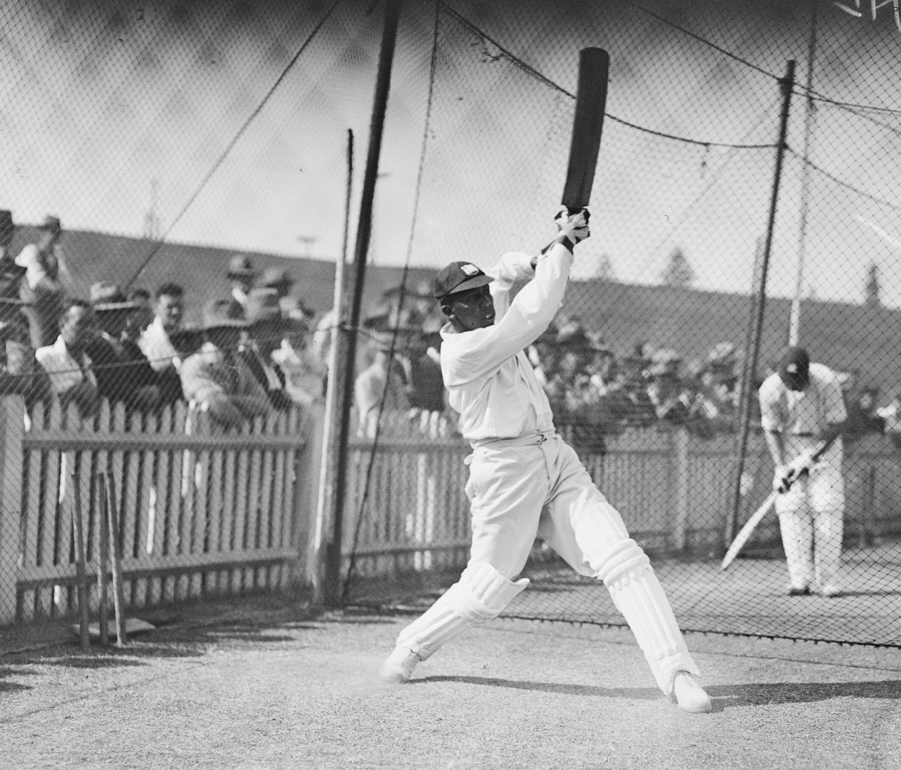 Learie Constantine practising his batting in the nets during the West Indian cricket team's tour of Australia in the 1930–31 season